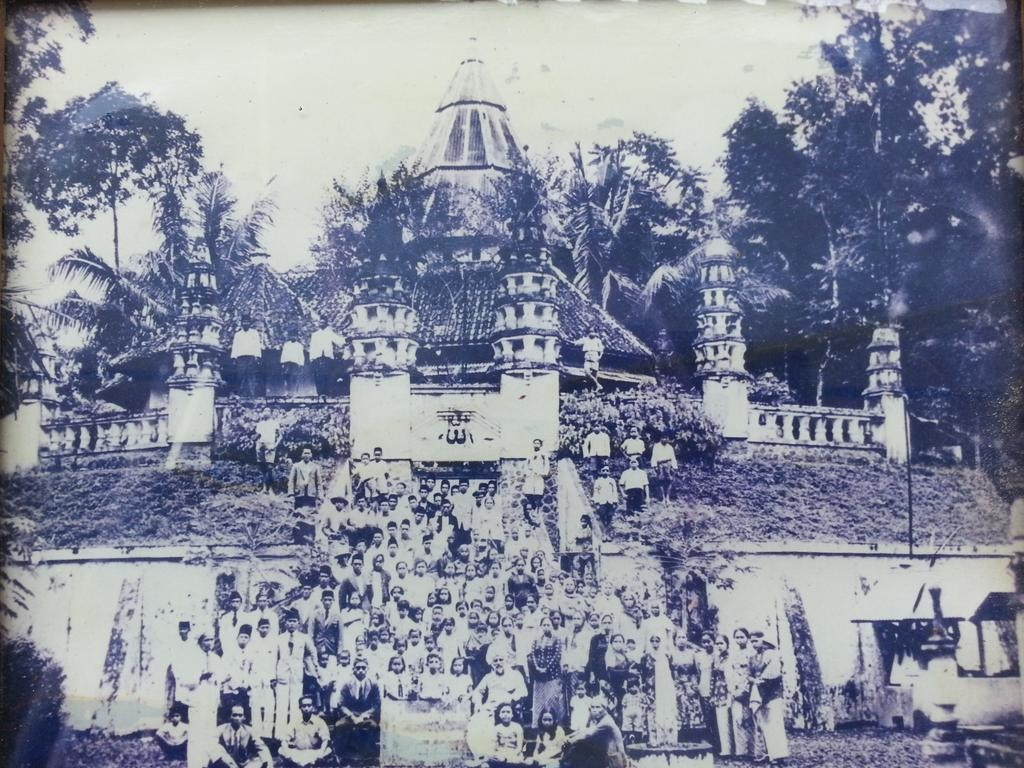 Baiturrahim Mosque, Ahmadiyah Singaparna 1925.